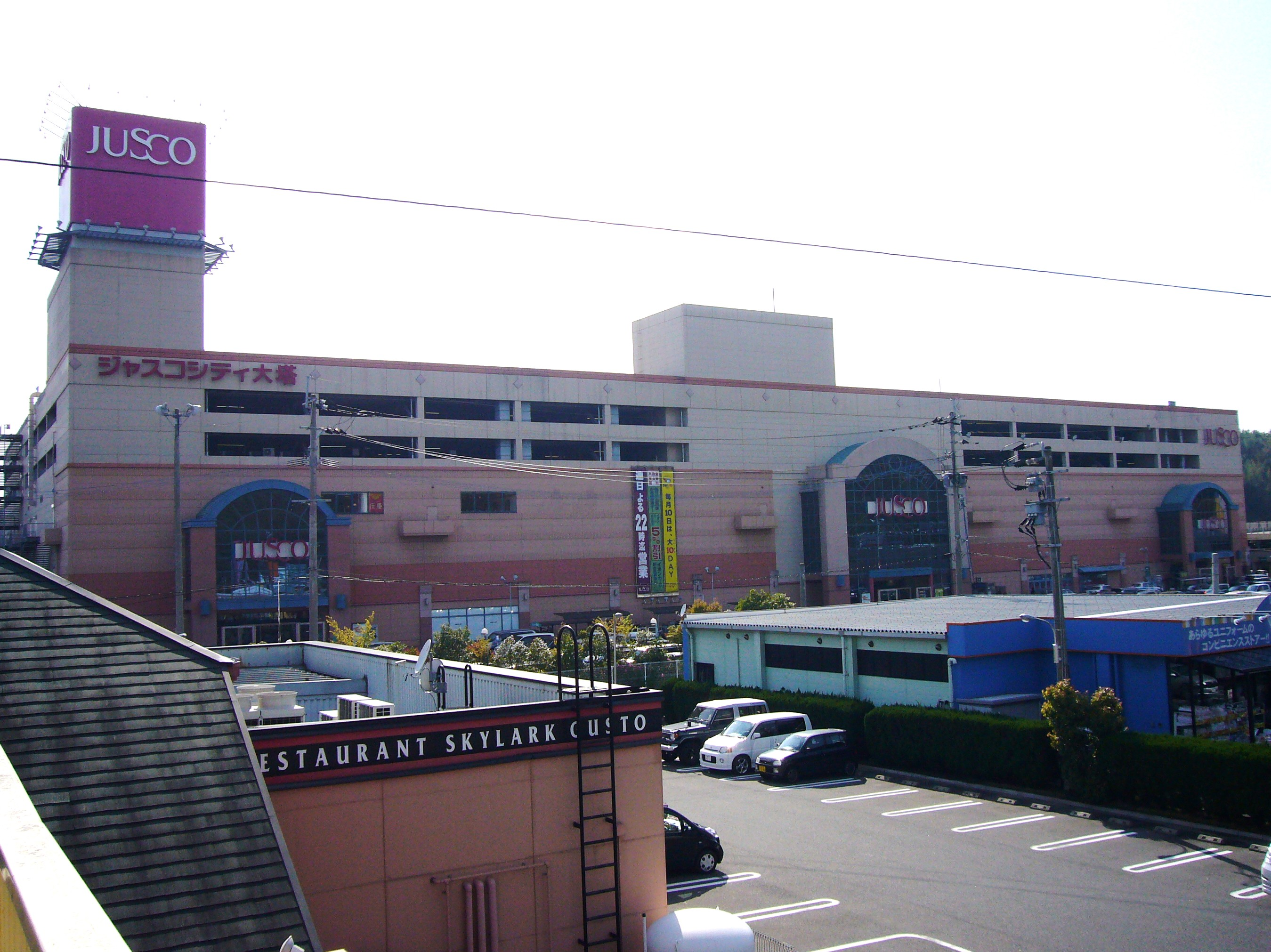 Photograph of Jusco city daito ,Sasebo,Nagasaki,Japan.